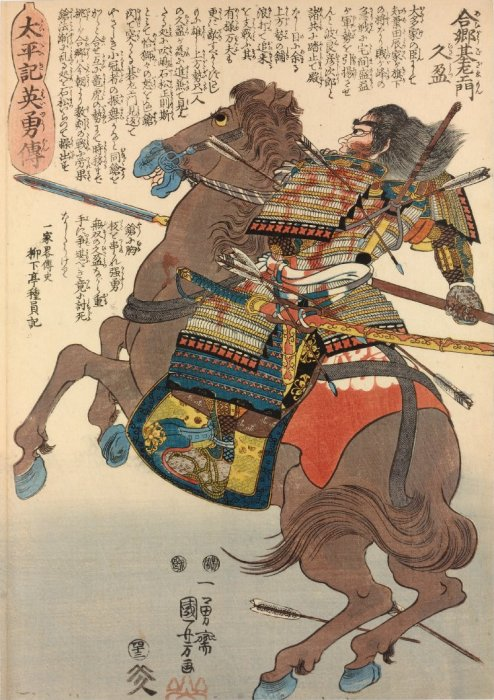 Edo period wood block print by Utagawa Kuniyoshi (1798-1861):Kozaemon Hisamitsu mounted and armored, but bareheaded, on his galloping steed. Heroic Stories of the Taiheiki (Teiheiki eiyû den, 太平記英勇傳)Part I, Publisher: Yamamoto-ya Heikichi, 1848-1849